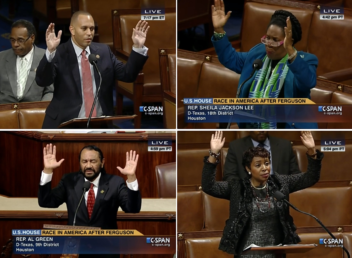 Reps. Jeffries (D-NY), Lee (D-Tex.), Green (D-Tex.) and Clarke (D-NY) perform the "Hands up, don't shoot" gesture that has come to symbolize the protests in Ferguson, Mo.